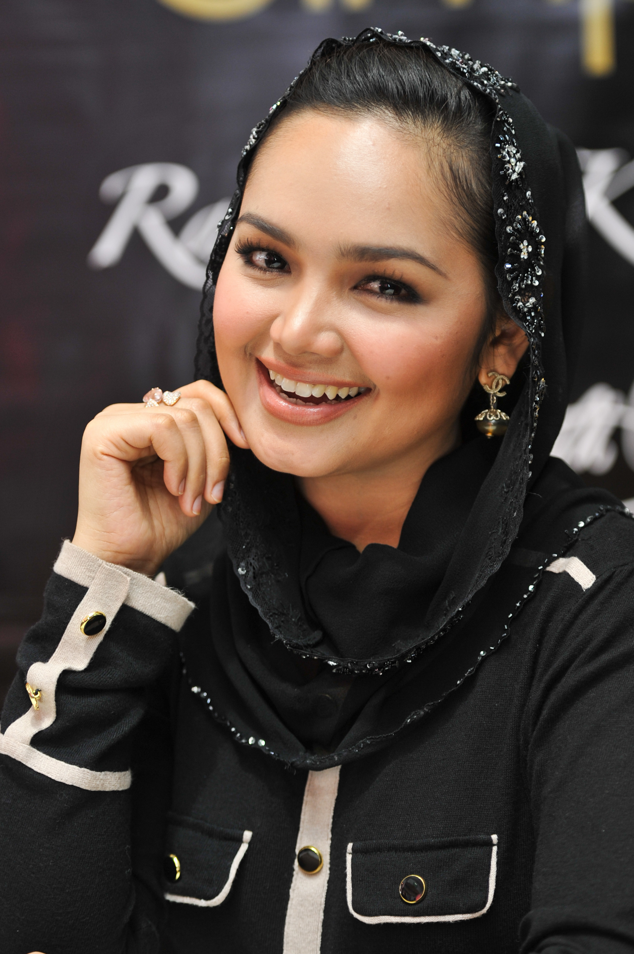 Siti Nurhaliza during the launching SimplySiti in The Mall, Delima, Brunei on June 10, 2011.